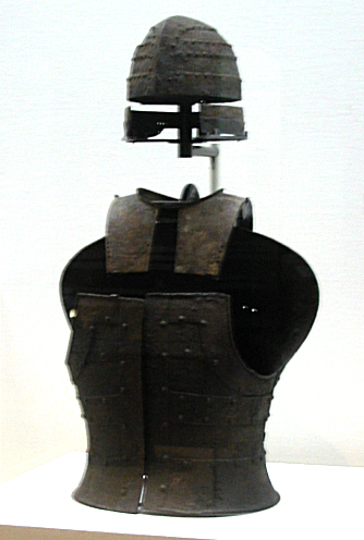 Kofun period armor. 5th century Japan.